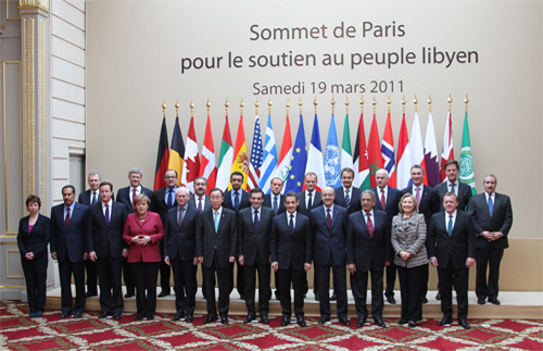 U.S. Secretary of State Hillary Rodham Clinton poses for a family photo with world leaders at the crisis summit on Libya at the Elysee Palace in Paris, France, on March, 19, 2011. [State Department photo/ Public Domain]